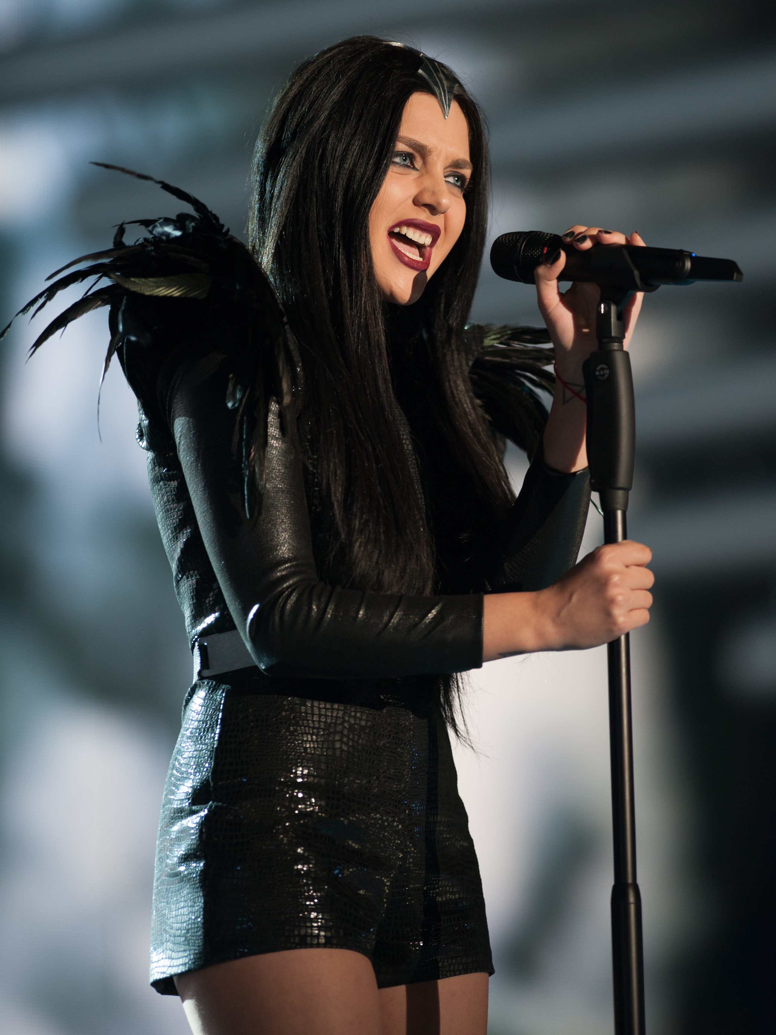 Eurovision Song Contest Vienna 2015: Nina Sublatti, Georgia